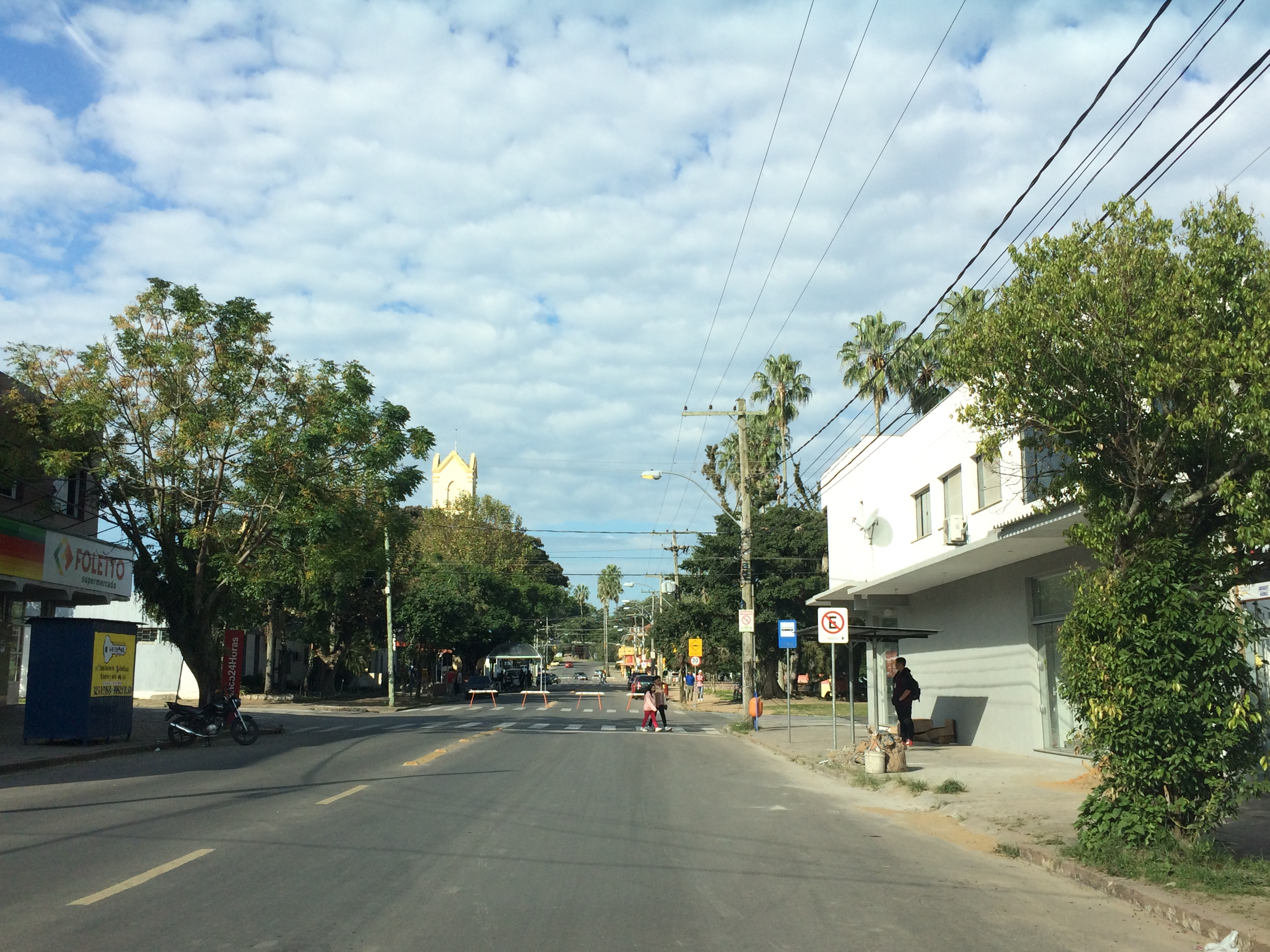 Heitor Vieira Avenue, in Belem Novo, Porto Alegre, Brazil.